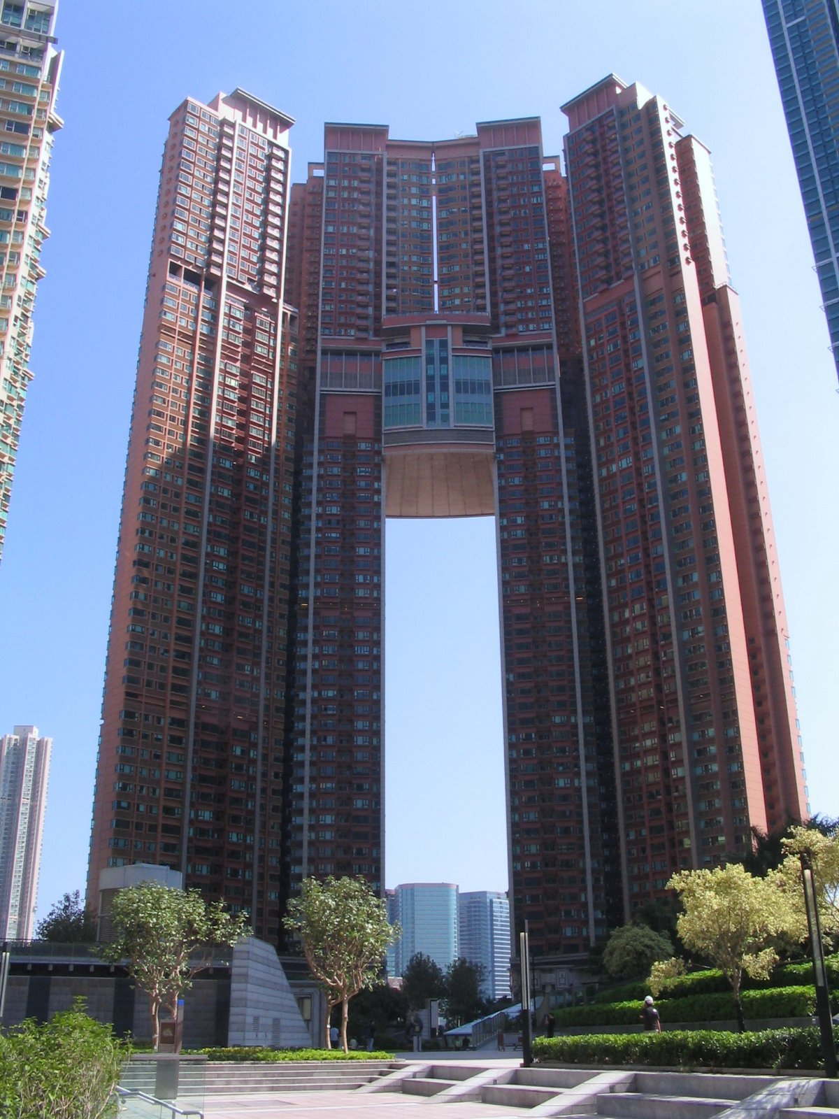 九龍站三期-凱旋門 The Arch, Union Square Package 3